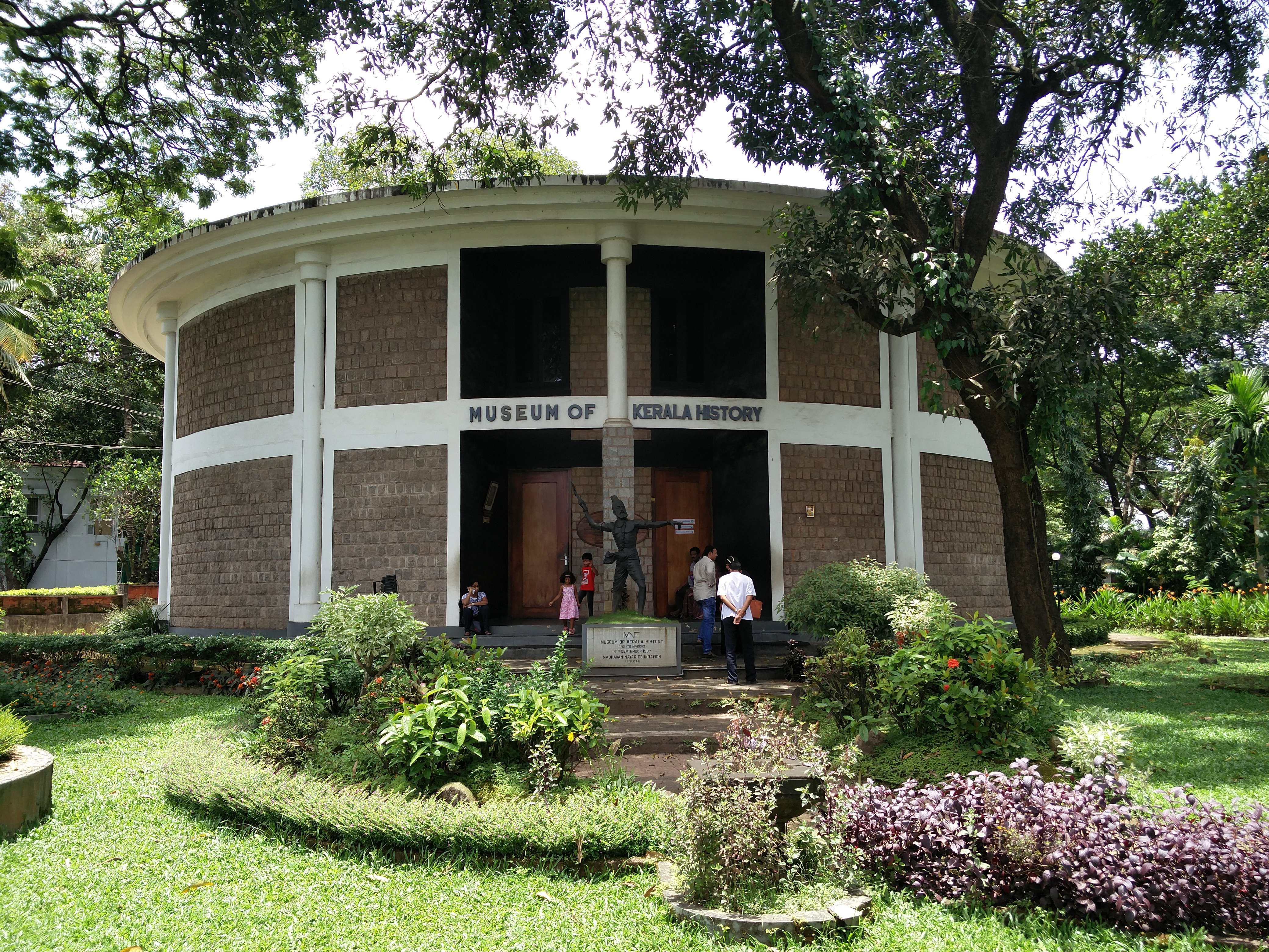 The Museum of Kerala History, with a statue of Parasurama in front of it